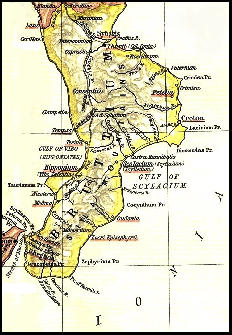 Map of roman Bruttium [1] Historical Atlas by William R. Shepherd, 1911. Courtesy of the University of Texas Libraries, The University of Texas at Austin. From The Historical Atlas by William R. Shepherd, 1911 edition